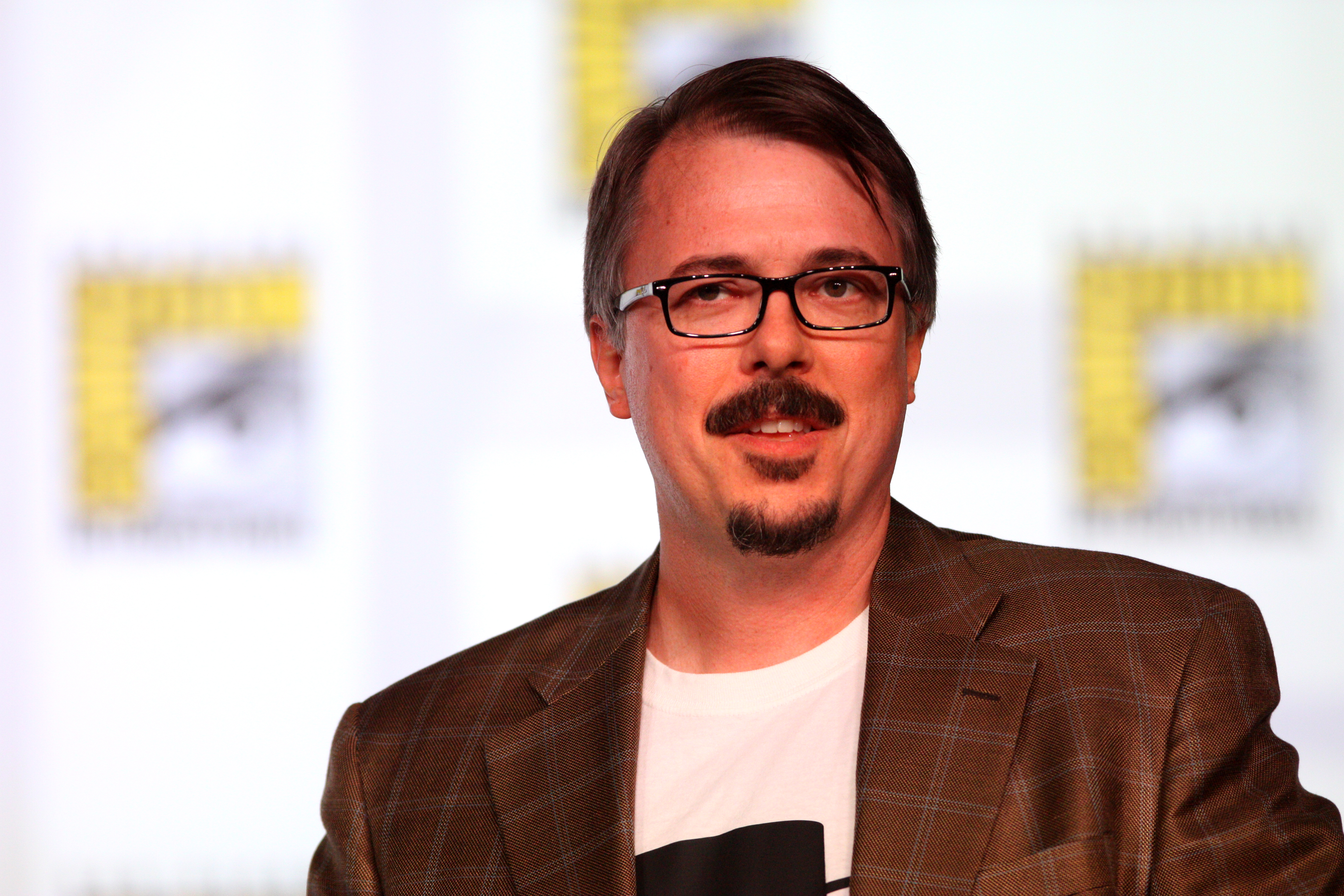 Vince Gilligan speaking at the 2012 San Diego Comic-Con International in San Diego, California.